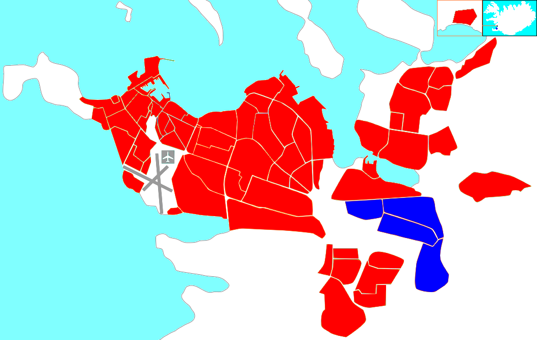 Locator map of the district Árbær (blue) within the municipality of Reykjavik (red).